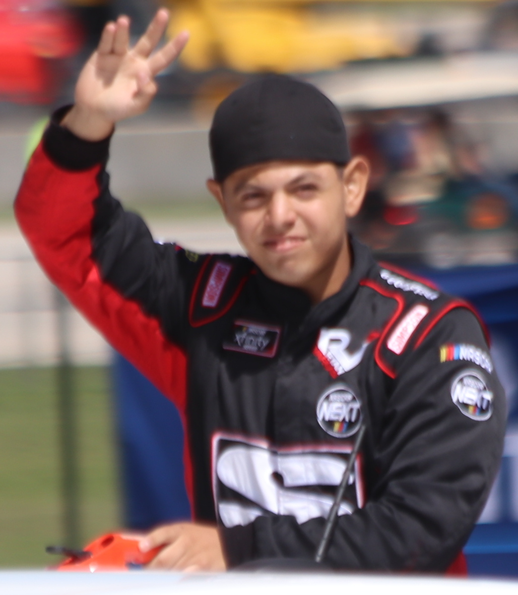 NASCAR driver Ryan Vargas waves to the crowd during driver's introductions at the 2019 CTECH 180 at Road America.